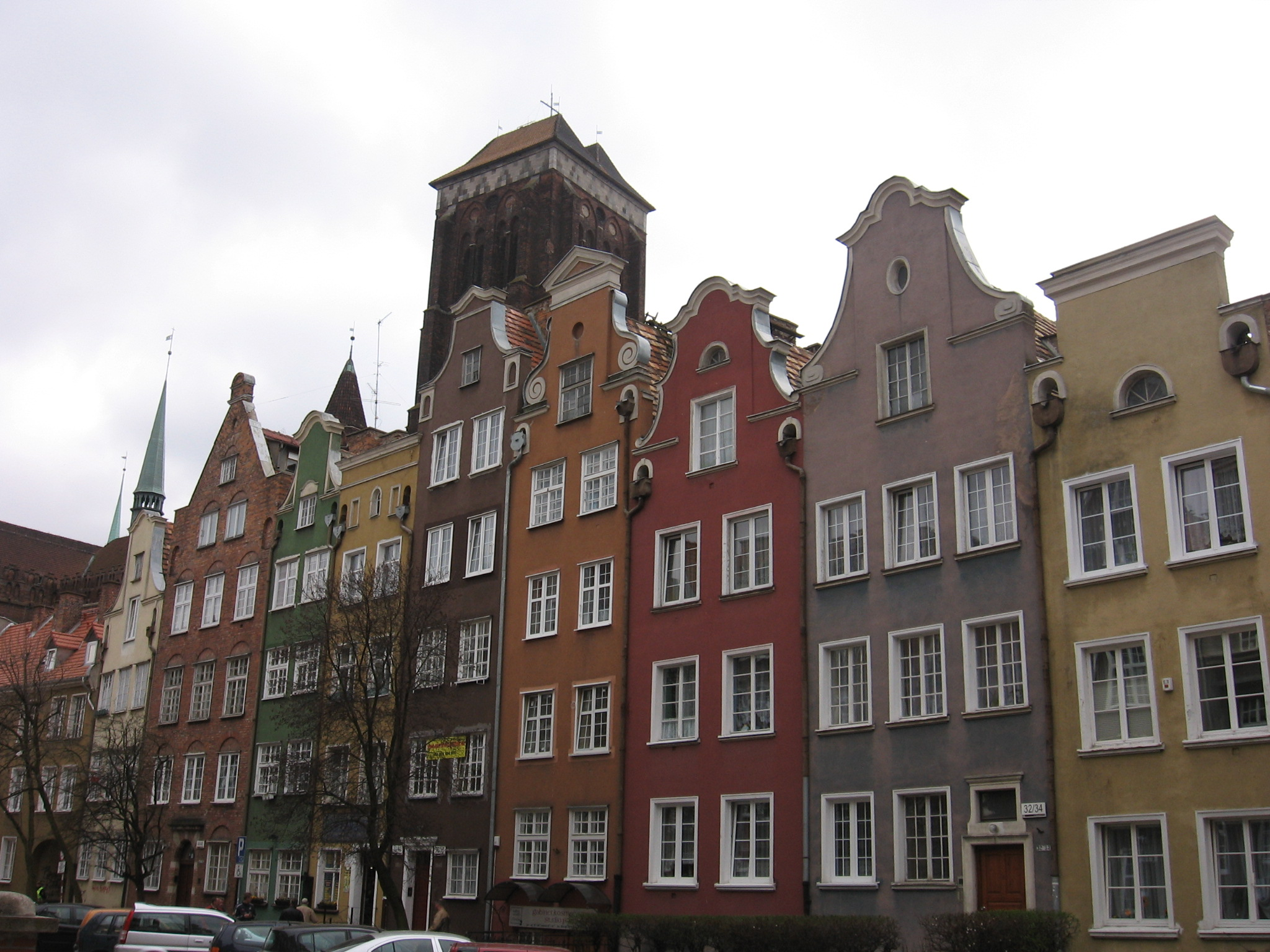 Colourful houses